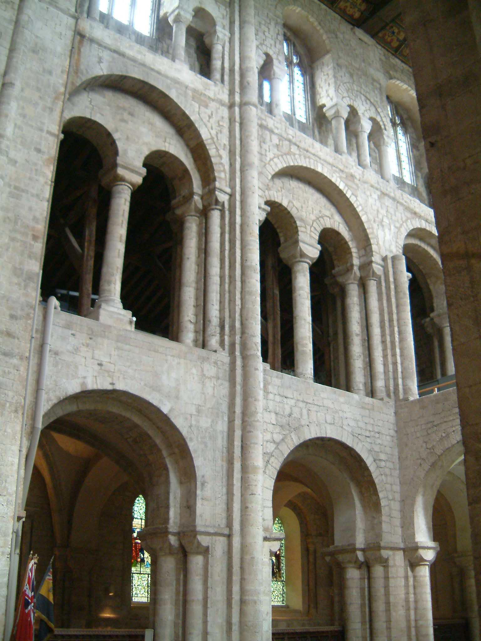 Winchester Cathedral, Winchester, Hampshire: arcade, triforium and clerestory of the south transept